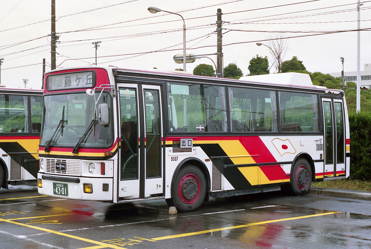 It is a one-step bus made of Belgium van hool, which was introduced by Nagoya Railway in 10 in 1985. A major feature is that it has a midship structure in which the engine is mounted at the center of the vehicle.